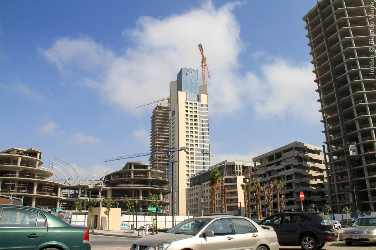 West Amman is the current economic city centre, and is the modern, stylish extension of Amman